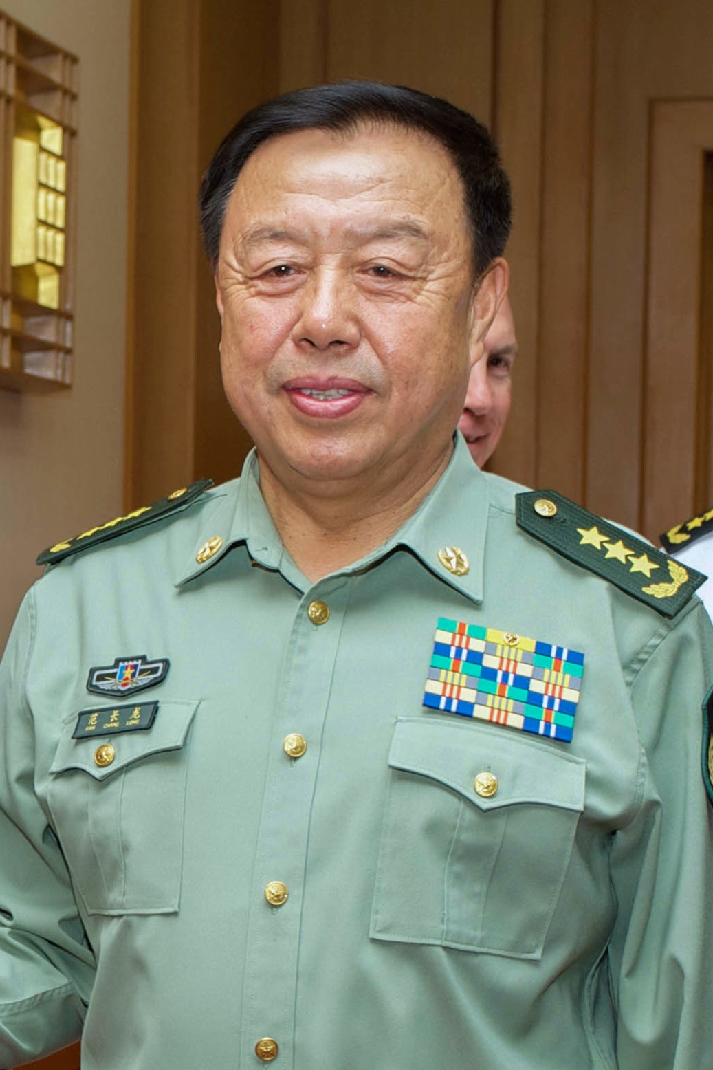 U.S. Secretary of State John Kerry shakes hands with Chinese Vice Chair of the Central Military Commission Fan Changlong at the Ministry of National Defense in Beijing, China, before a bilateral meeting on May 16, 2015.